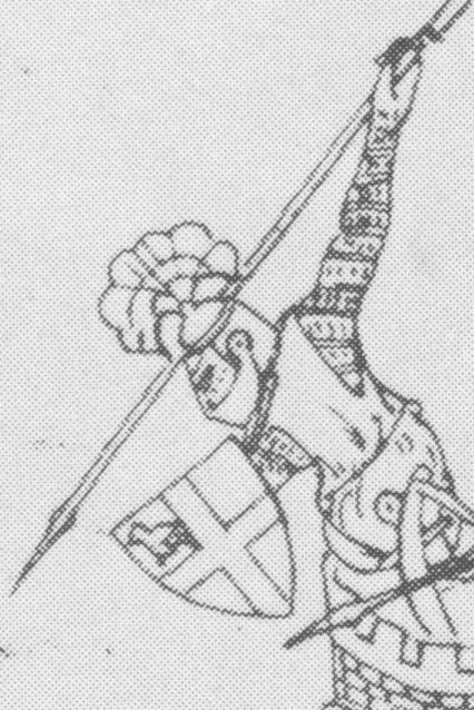 Detail, for further information see other file.